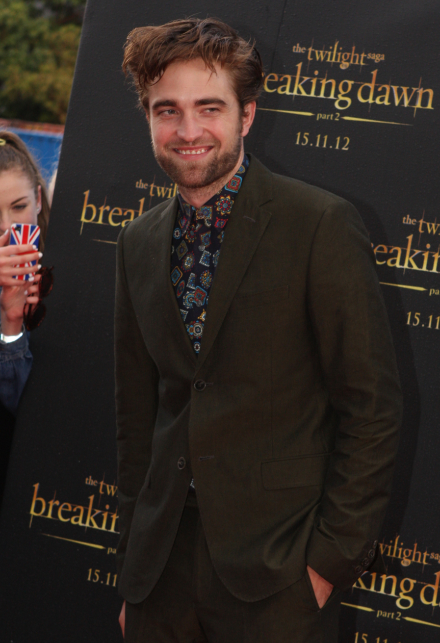 Robert Pattinson Promotes "Breaking Dawn - Part 2" In Sydney, October 2012.